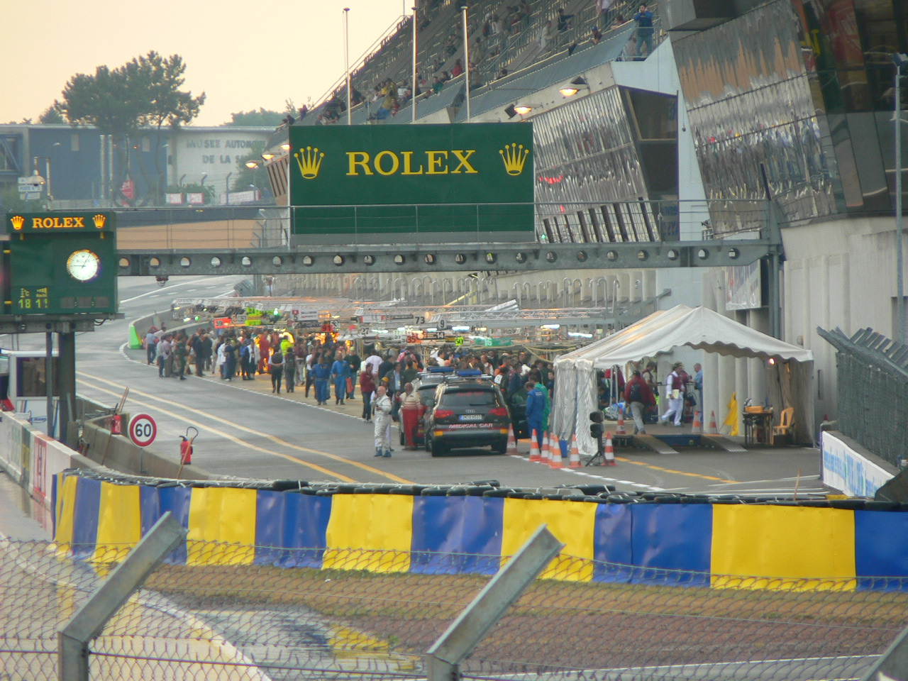 Description: Pit stop lane before the 24 heures du mans 2006 - Le Mans (France) Date: 14 june 2006 Photographer/illustrator: Eyone Uploader: Eyone